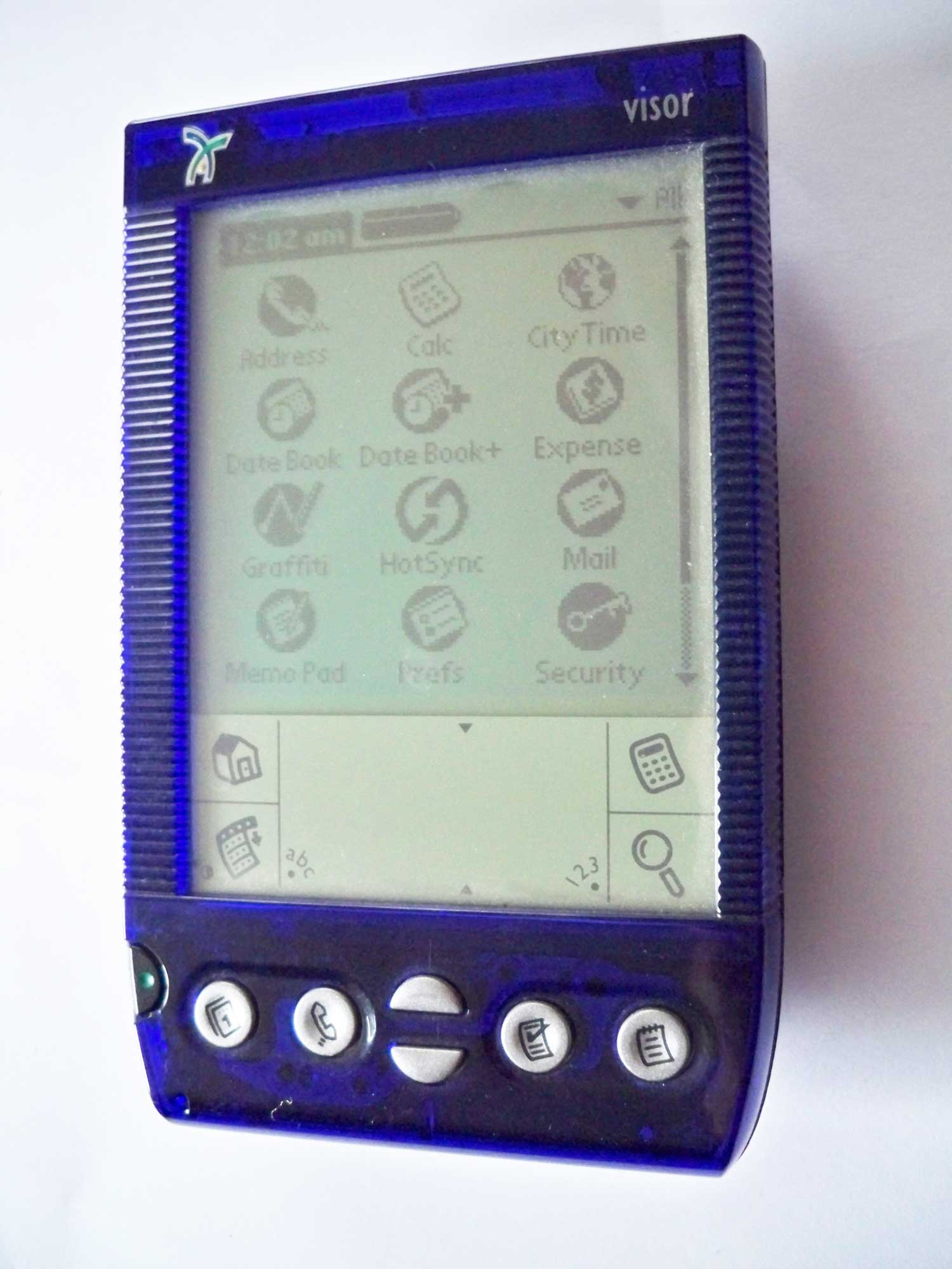 Personal Digital Assistant Handspring Visor Neo, blue